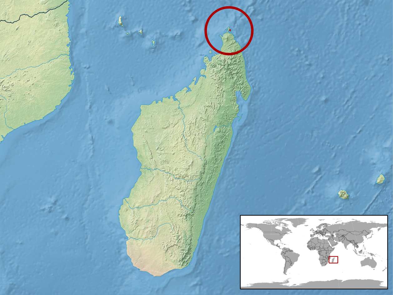 geographic distribution of Paracontias minimus